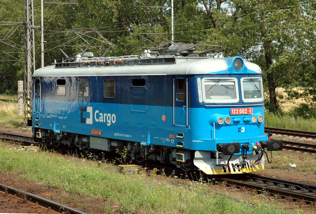 Locomotive 122.002 of ČD Cargo railway operator at station Bohumín-Vrbice, Czech Republic